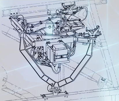 "Unpressurized Cargo Carrier Attachment System", a fastener for small unmanned modules on the truss beam on the International Space Station.